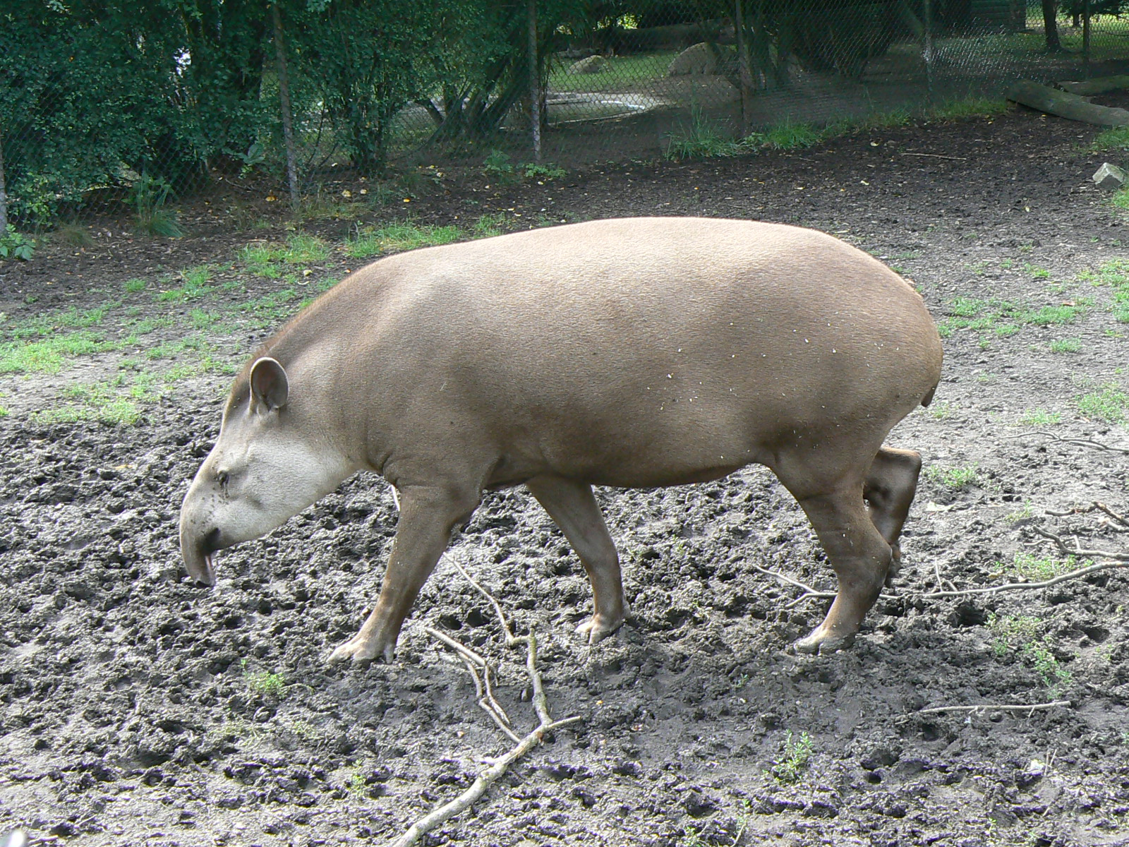 brazilian tapir / tapirus terrestris / south american tapir / flachlandtapir